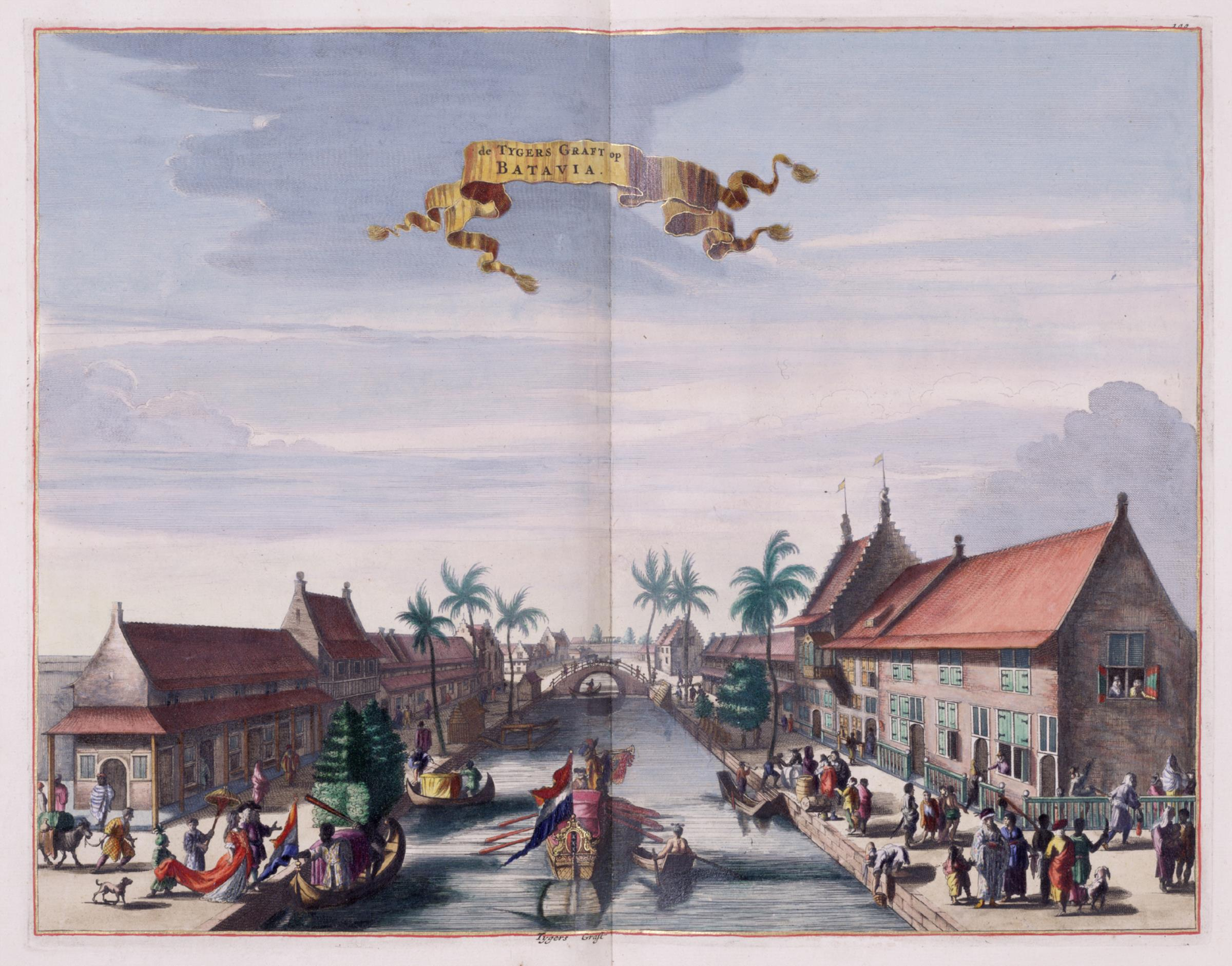 View of the Tijgersgracht on Batavia taken from the Atlas van der Hagen, Koninklijke Bibliotheek, The Hague, part 4. In the mid 17th century, the Tijgersgracht was deemed the most attractive of the fifteen city centre canals in Batavia. The canal was lined with the houses and buildings of the city's most prominent families. Compare with the sketch by Johannes Rach in the National Library of Indonesia, inv.nr. BW 11 and the copper print in Koninklijke Bibliotheek, inv. nr. 388A9_dl_002_na_p_198.